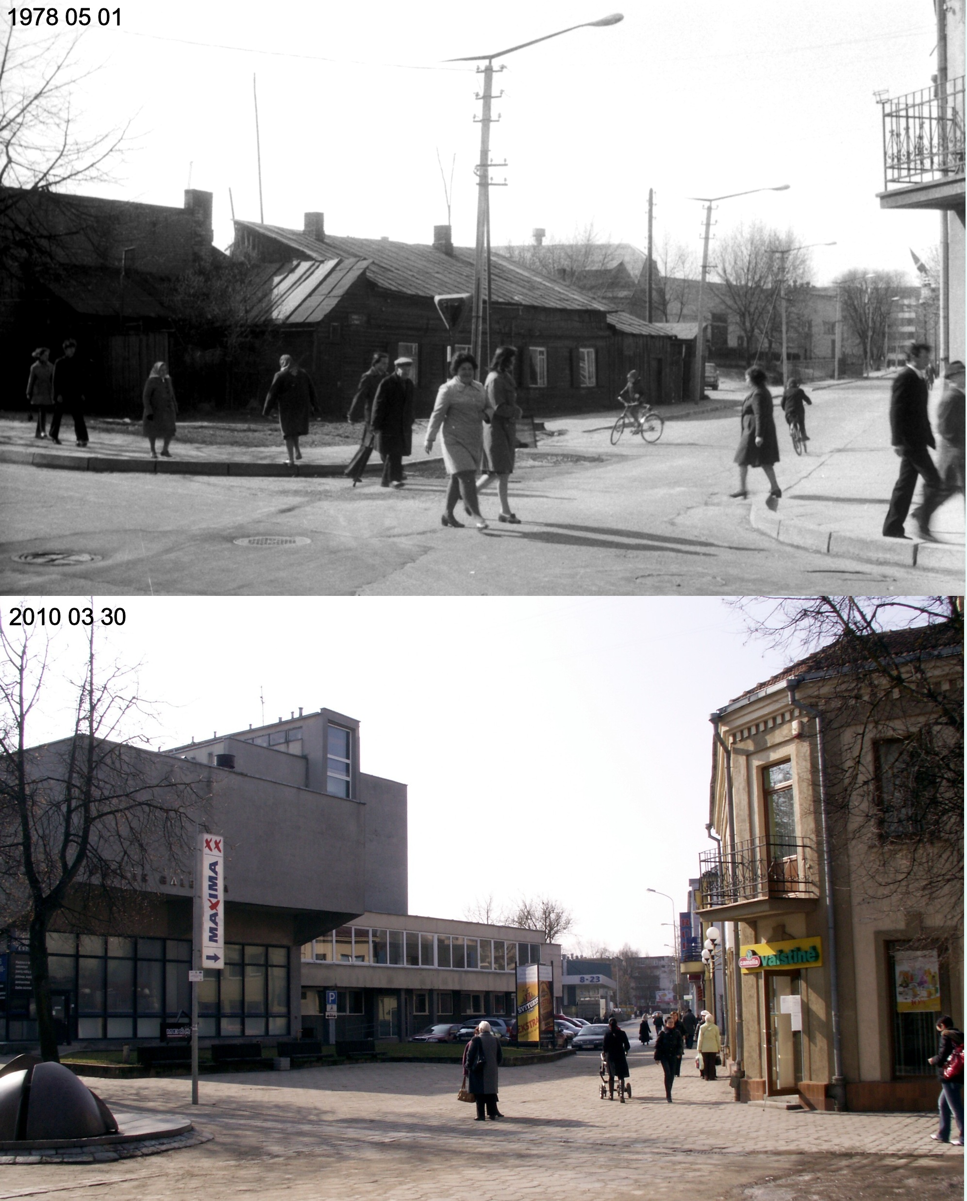 Rūdės str. in Šiauliai 1978-2010, Lithuania